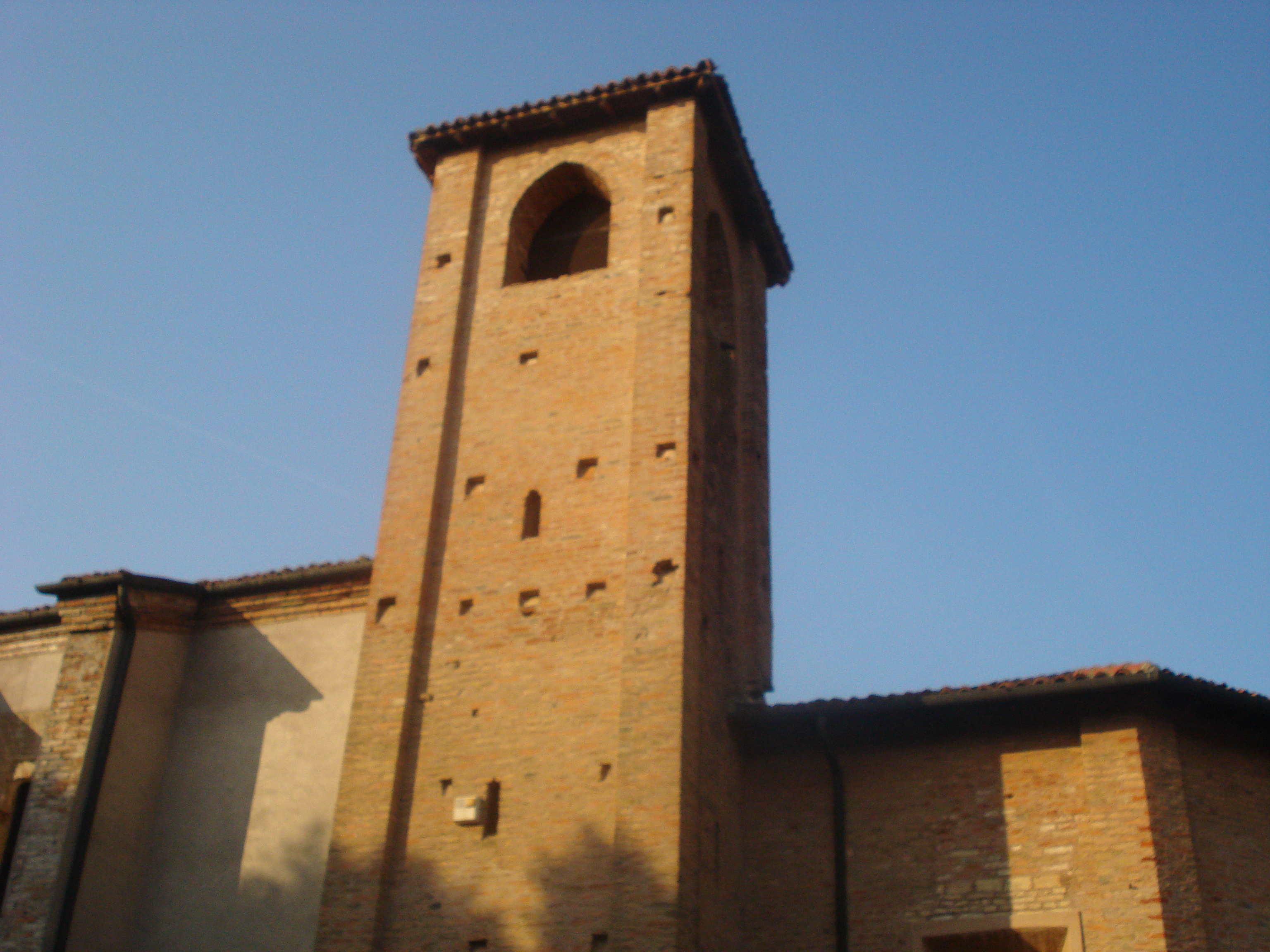 The bell tower of church of San Girolamo at Gottolengo